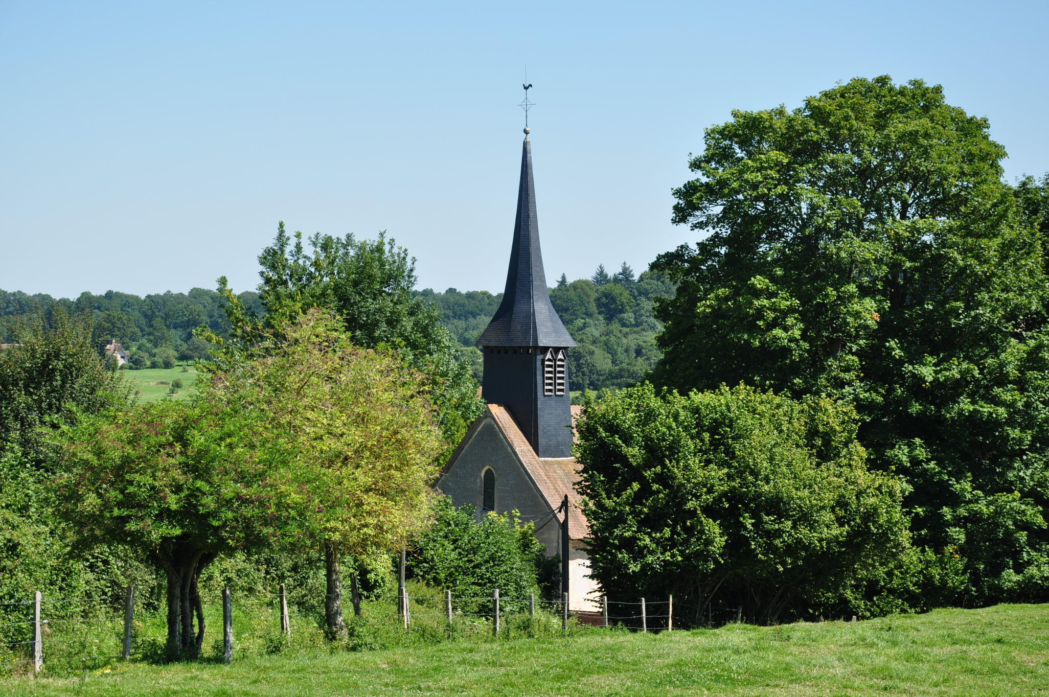 The Notre Dame church of Auquainville dates from the 15th-18th century and is a listed historic building (Calvados department, Normandy, France).